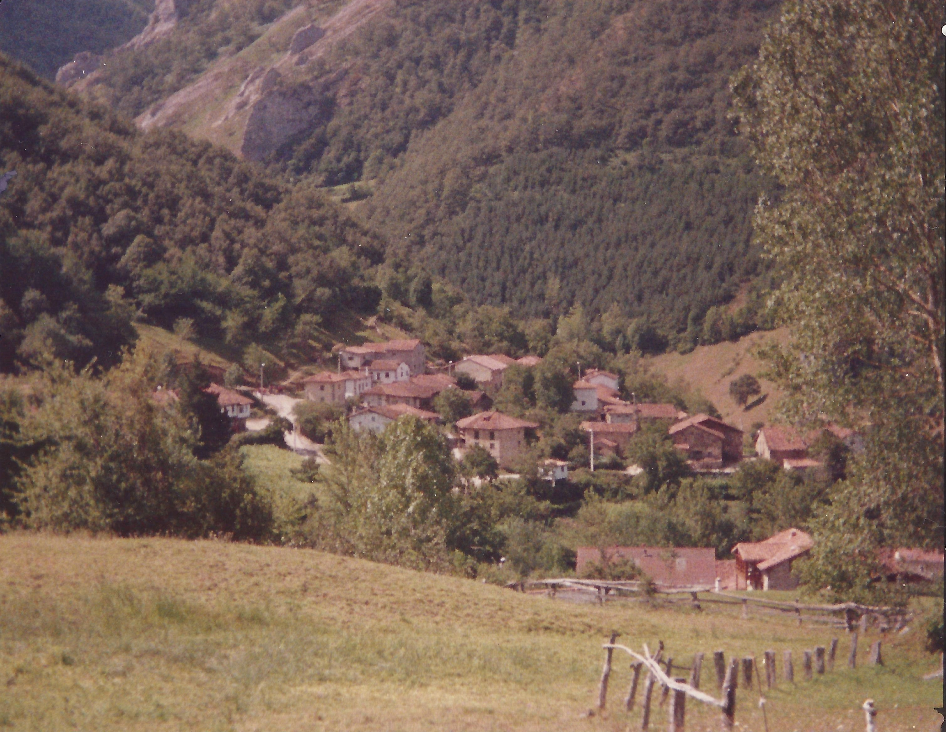 Cosgaya neighborhood